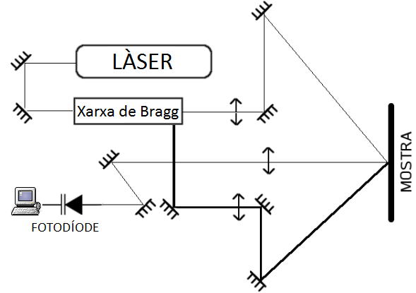 Experimental setup for interferometry of speckle